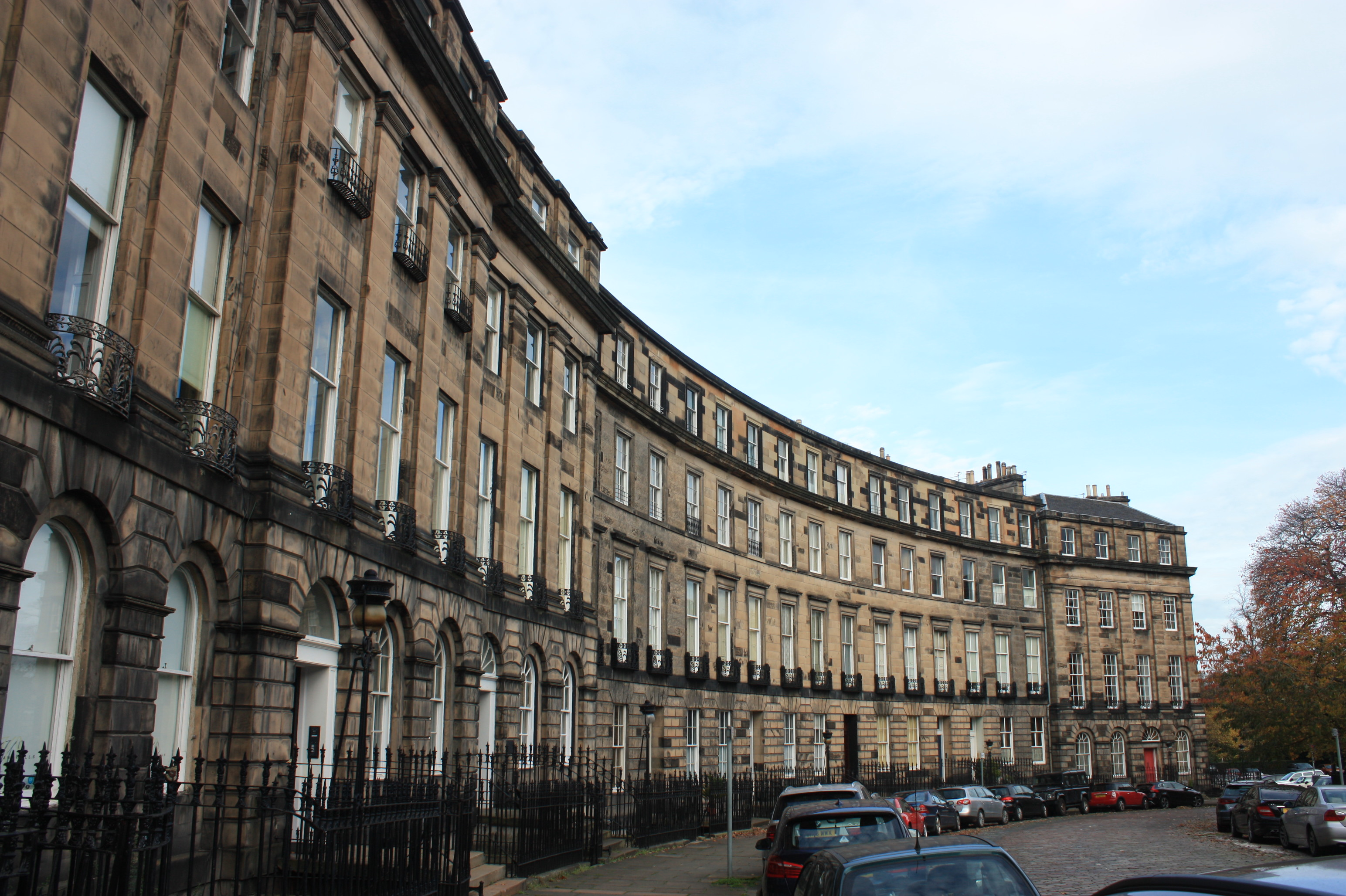 1 to 10 Ainslie Place, Edinburgh